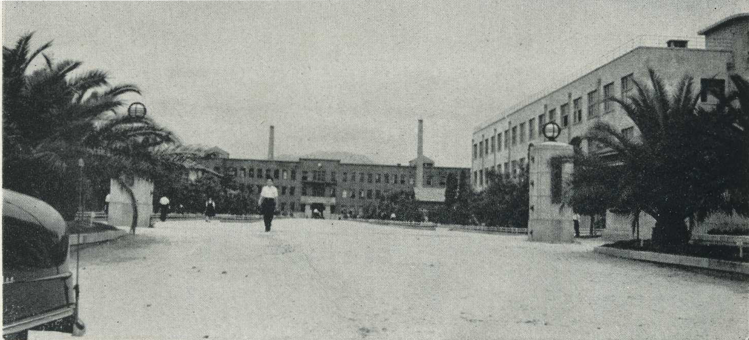 Hiroshima University in the 1950s, formerly Hiroshima Bunri University.